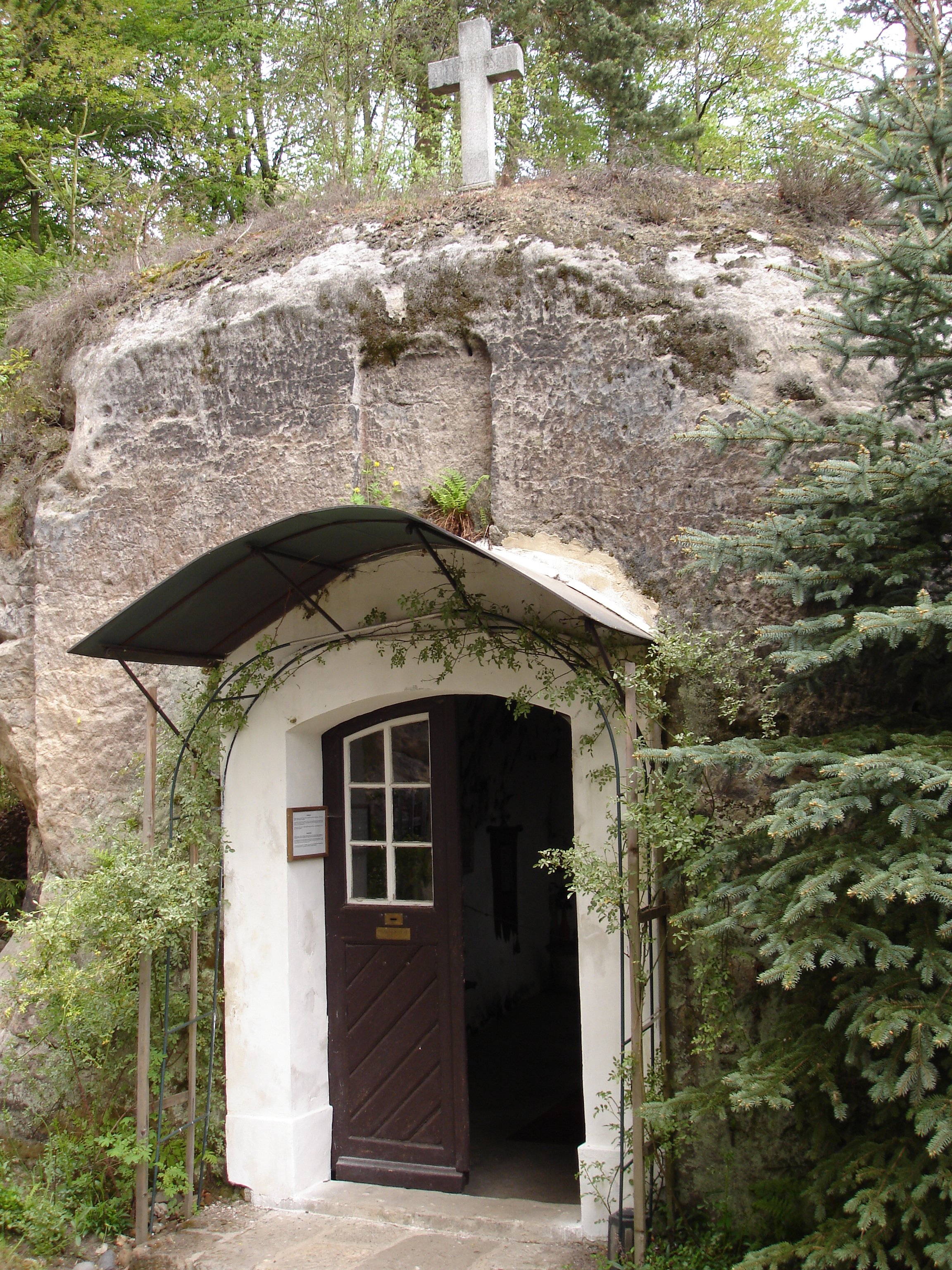 Saint Iggy Rock Chapel in the village of Všemily, Děčín District, Czech Republic